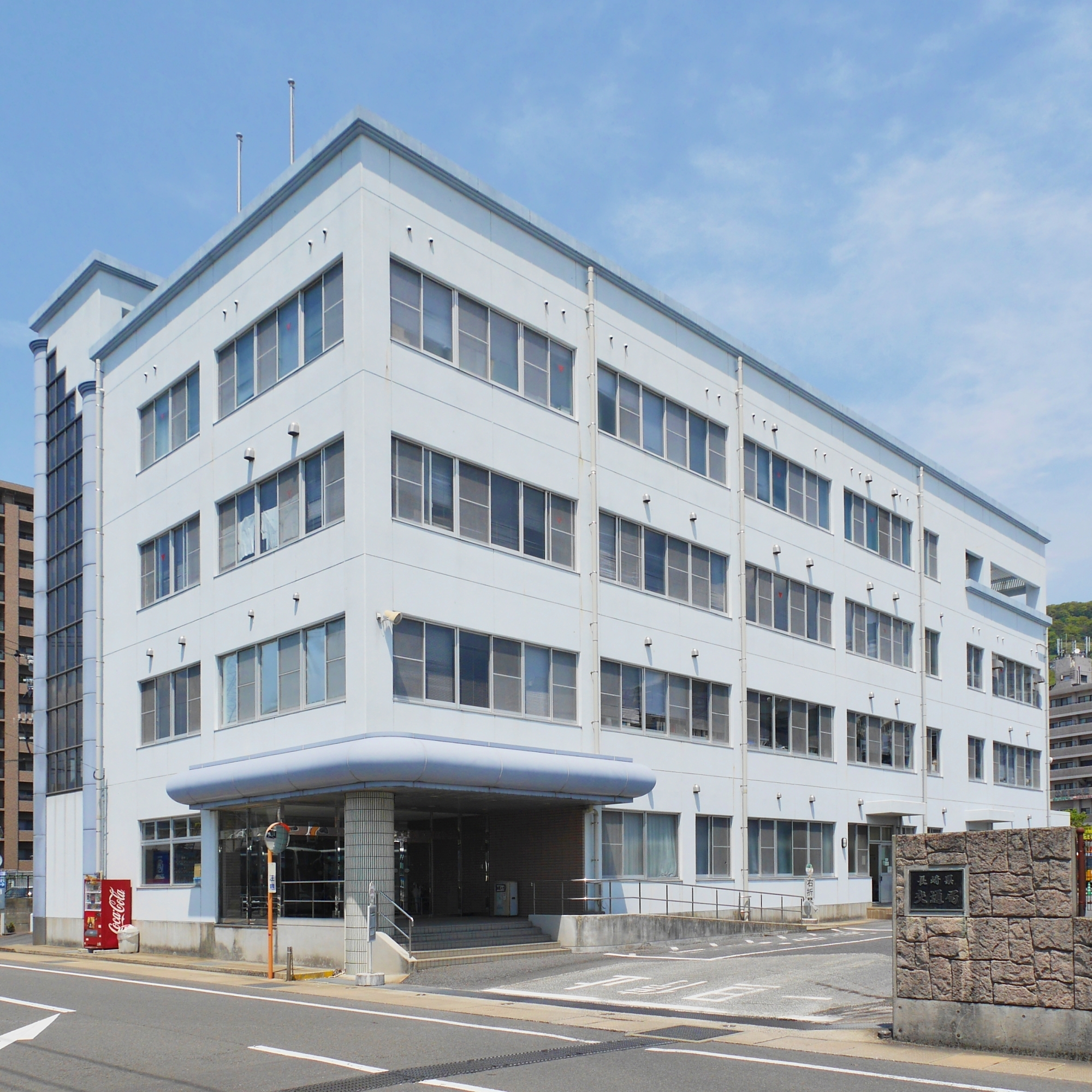 Transportation Bureau of Nagasaki Prefecture Headquarters.(Nagasaki,Nagasaki)